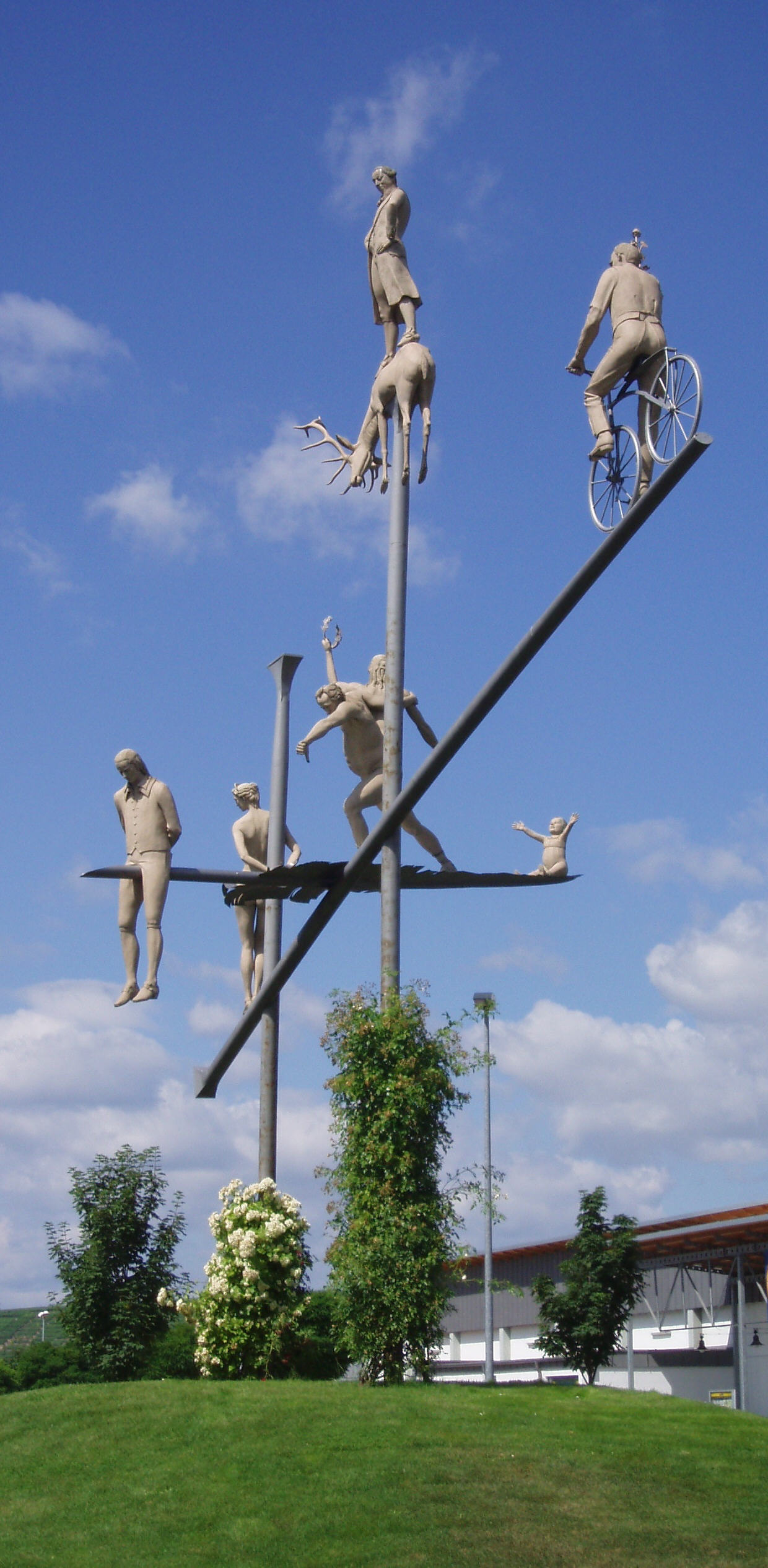 Peter Lenk, Hölderlin im Kreisverkehr